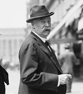 Lewis Cass Ledyard, 1914 Photograph by Harris & Ewing